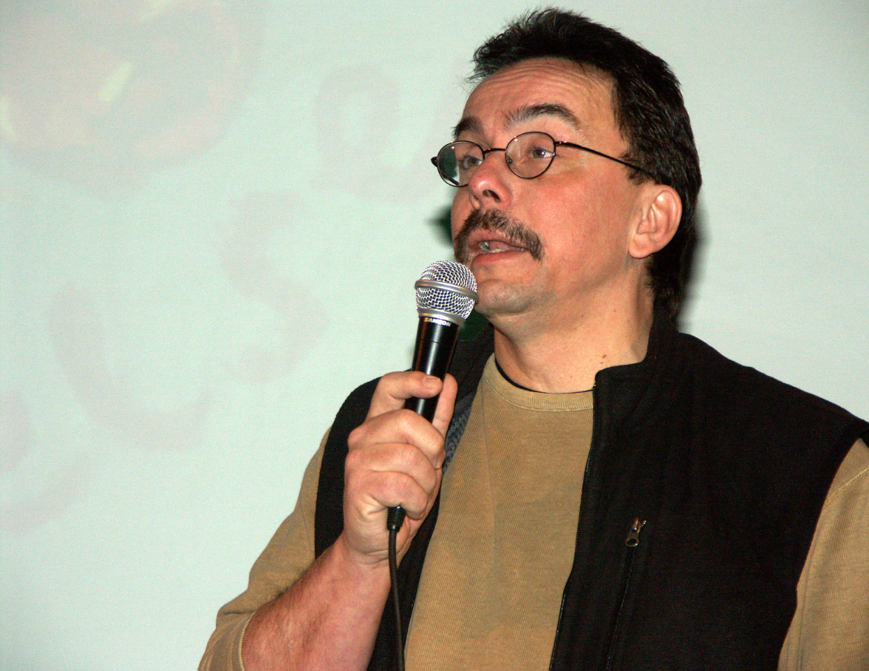 Anders Sjöberg, director of the Swedish Evangelical Mission.